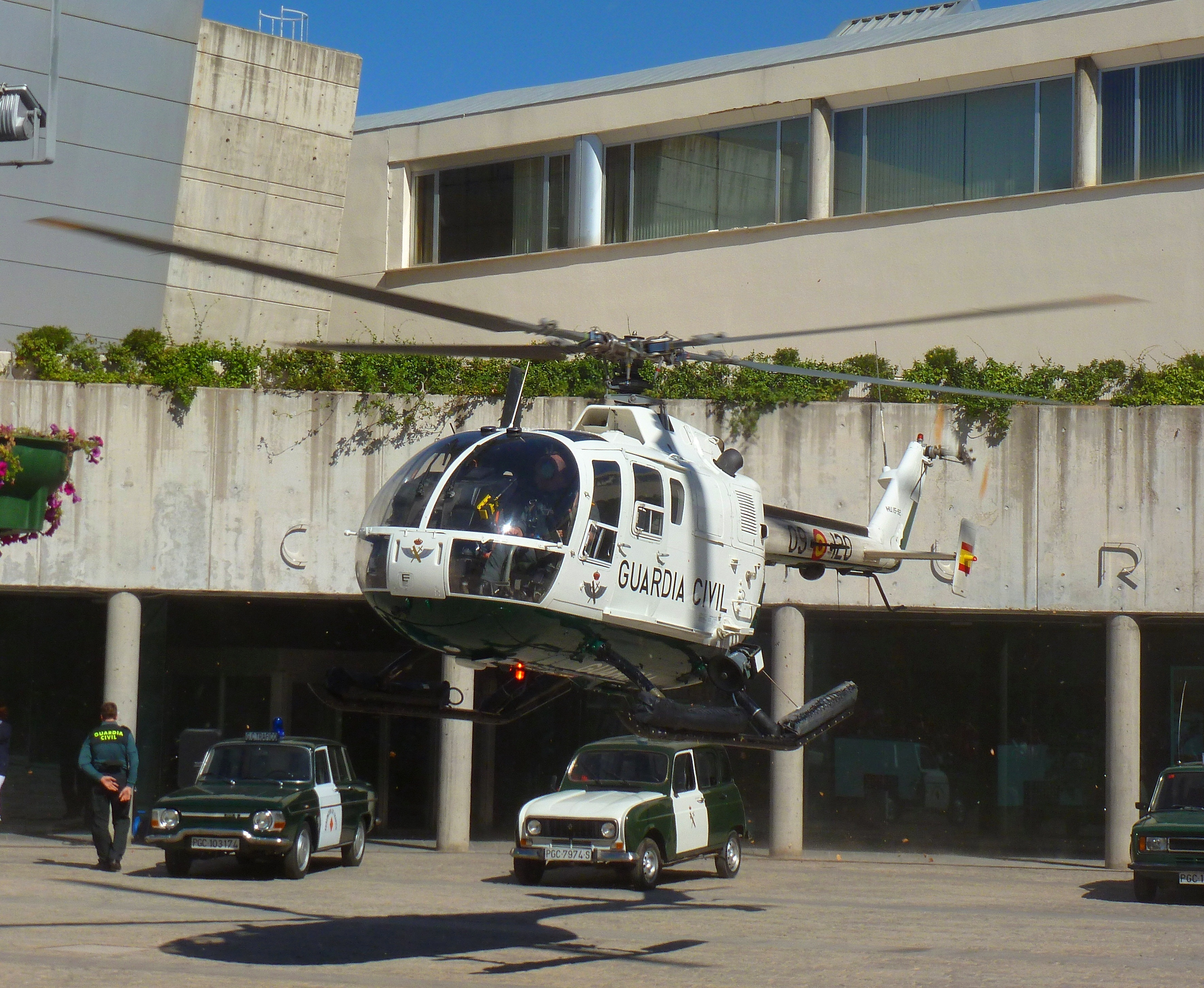 Bo-105CBS-4 of the Spanish Civil Guard.